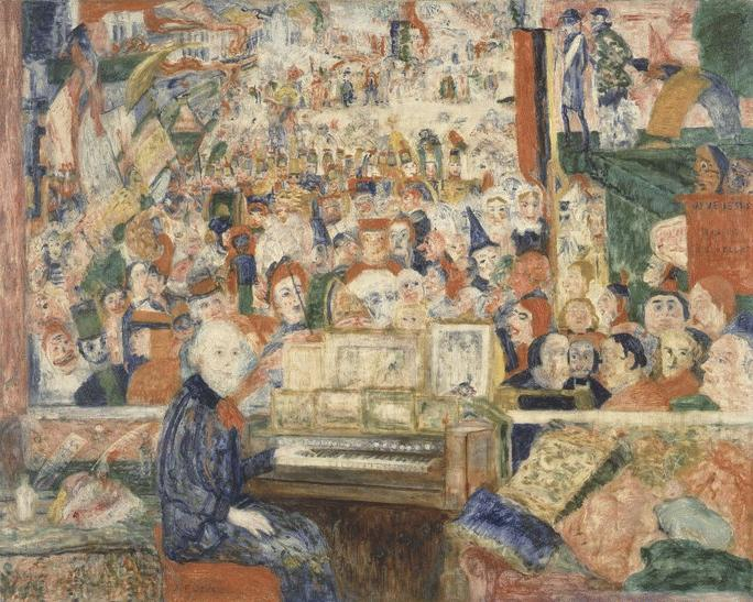 James Ensor, Ensor at the Harmonium, 1933